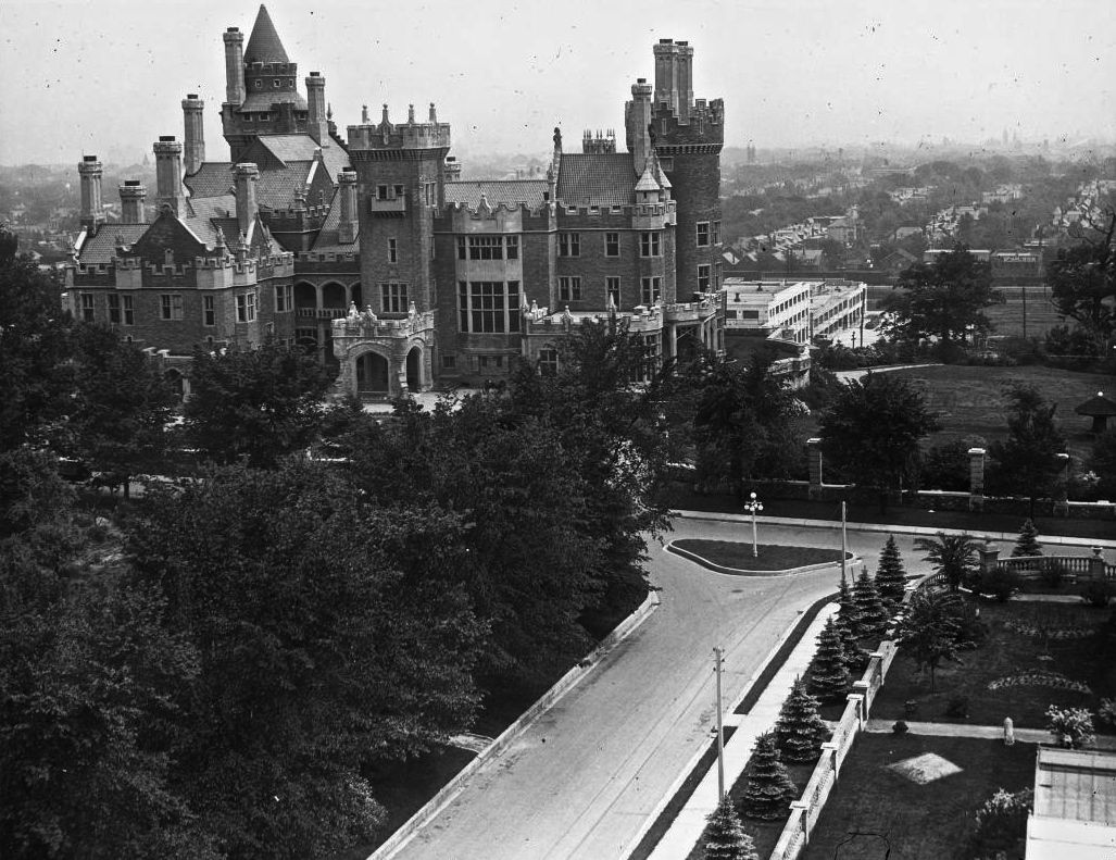 Photographs : View of Casa Loma from tower of stables, Casa Loma, 1 Austin Terrace, Toronto, Ontario, Canada; vers 1920; Fonds 1244, Item 4030.